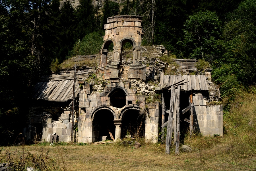 Shoreti Monastery Cover Image